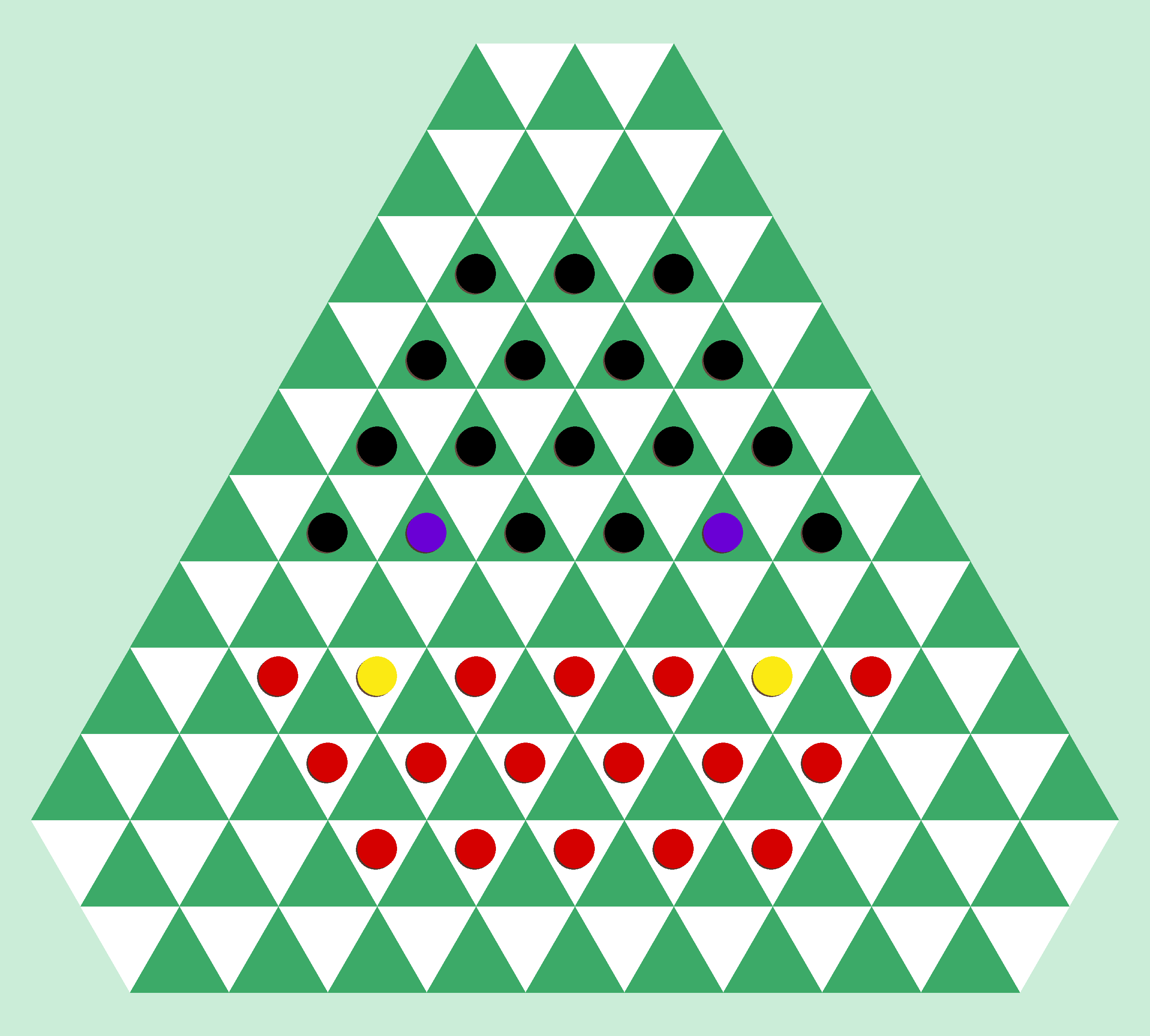 Bizingo initial setup, captains distinguished by color. Done in MSPAINT.